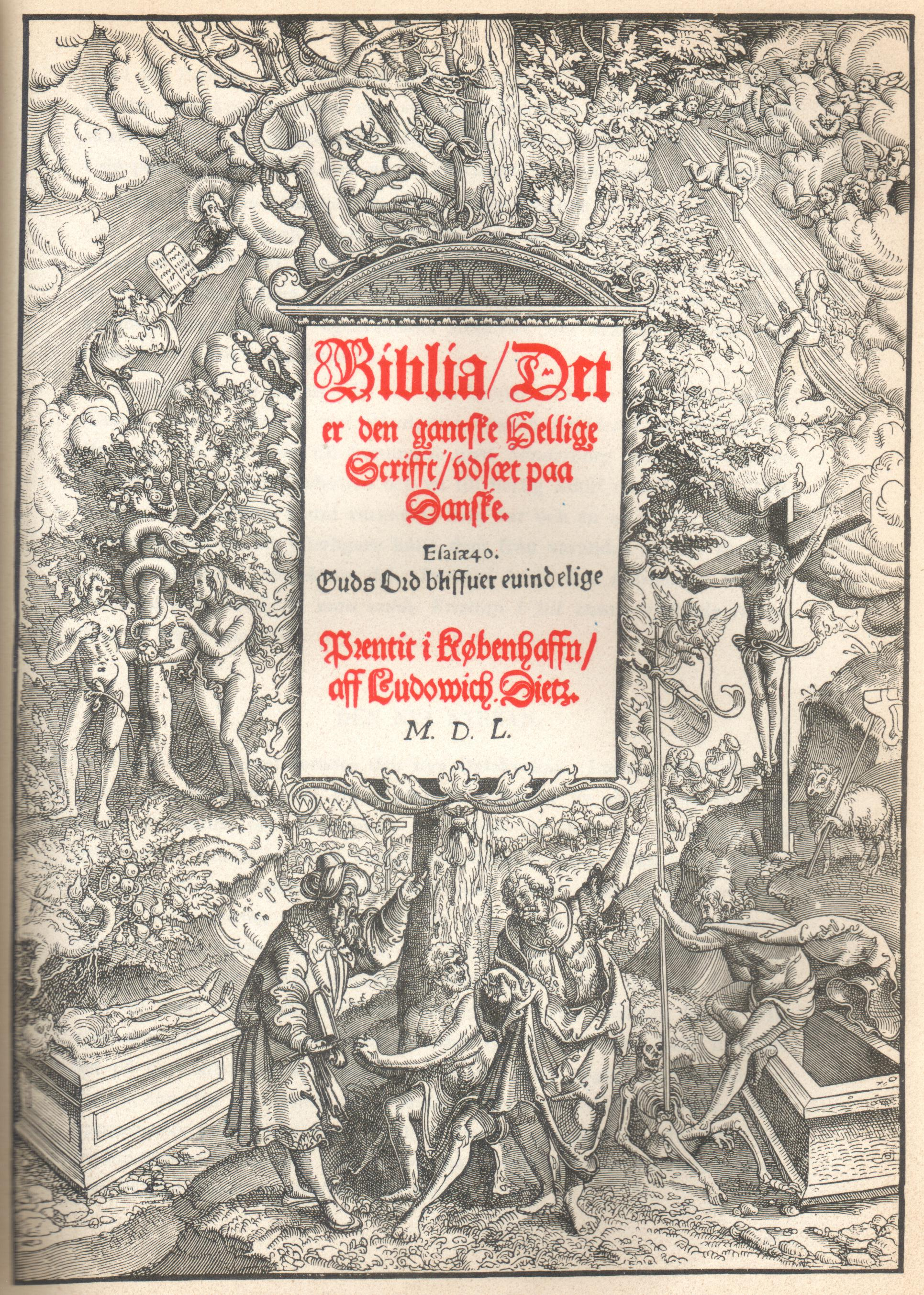 Cover of Christian III:s Bible, the first complete translation of the Bible to Danish. A large tree divides the image between events from the Old Testament and the New Testament. On the left side, Old Testament, you can see Moses on Mount Sinai receiving the tablets of testimony from God. Also visible is the Fall of man and a coffin, as a symbol of death. The leaves of the tree are dry while on the right side (New Testament) the leaves are fresh, symbolizing the work of Christ. Also on the right side is the crucifixion. At the foot of the cross is John the Baptist and a Jewish rabbi, pointing at Christ, indicating that Christ will save all sinners. Notice also that Moses is depicted with horns in his forehead. This comes from a misinterpretation of Exodus 34 verse 35, 'the skin of Moses' face shone' while he talked with God. This sentence was for many centuries mistranslated to 'Moses had horns on his forehead'. Hence Altdorfer has depicted Moses with horns.